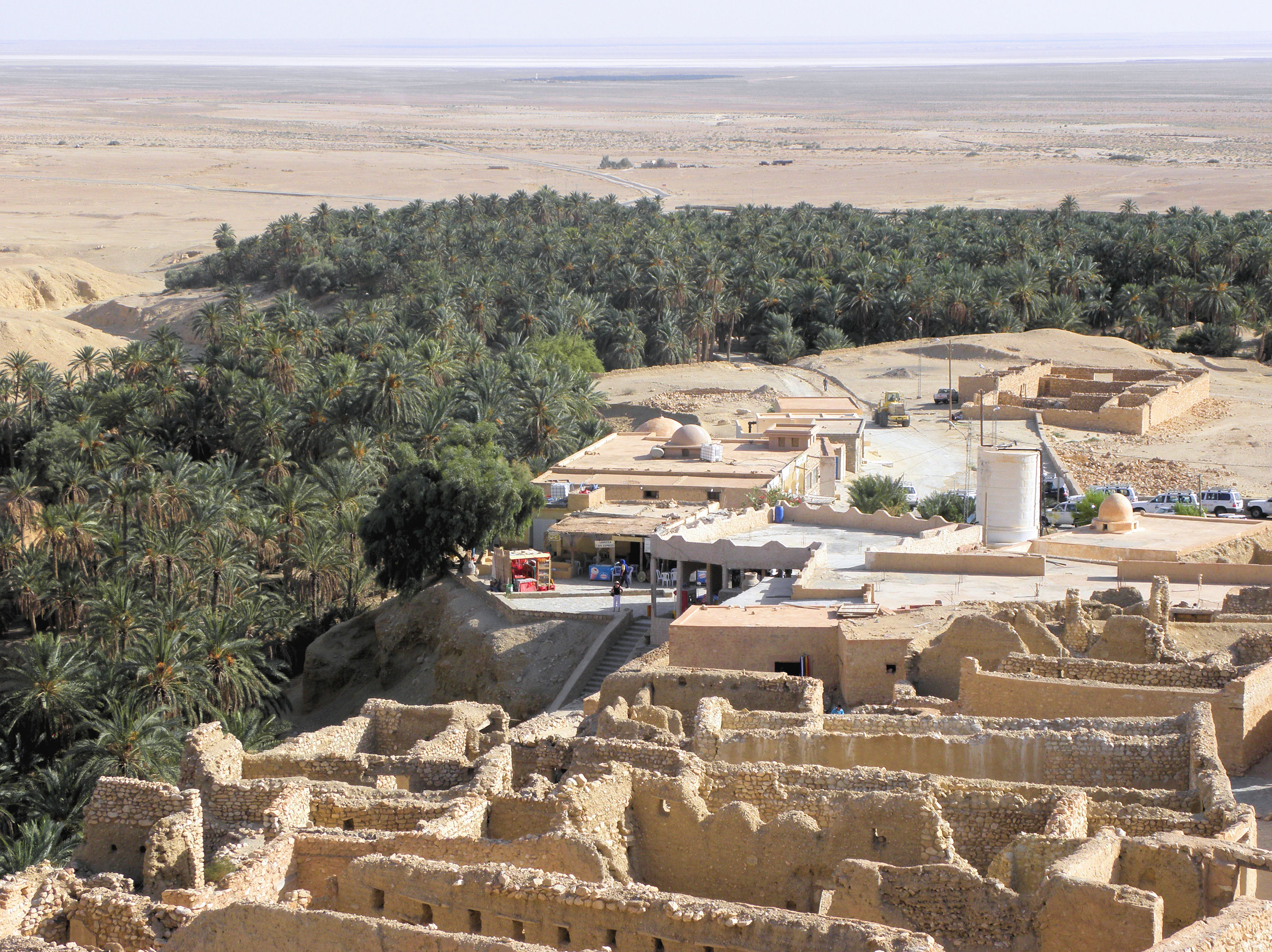 The abandoned village of Chebika above the oasis